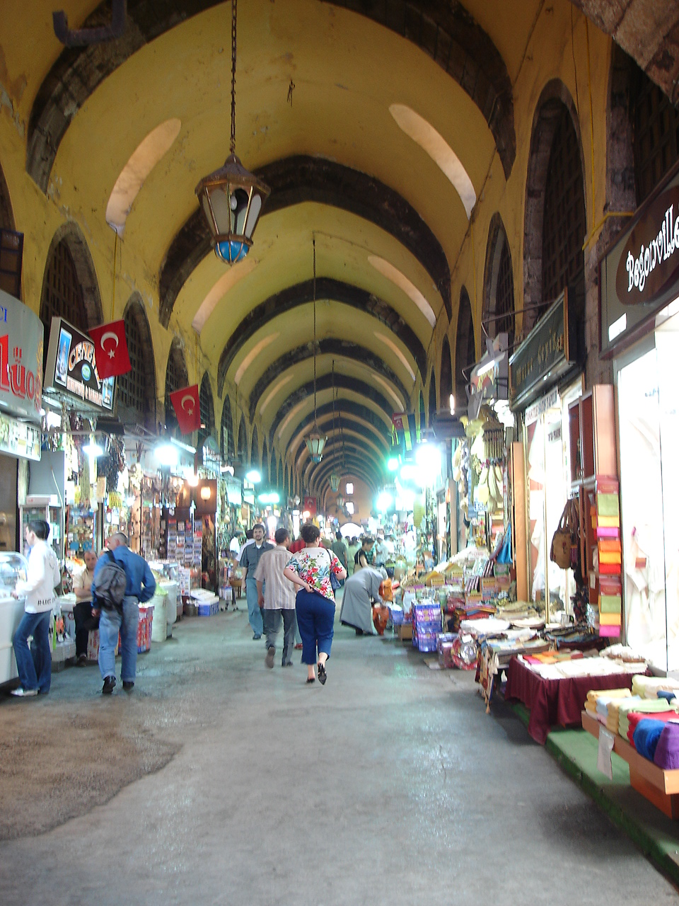 The colourful Spice bazaar (or "Egyptian Bazaar") in Istanbul. Picture by: Giovanni Dall'Orto, May 30 2006.